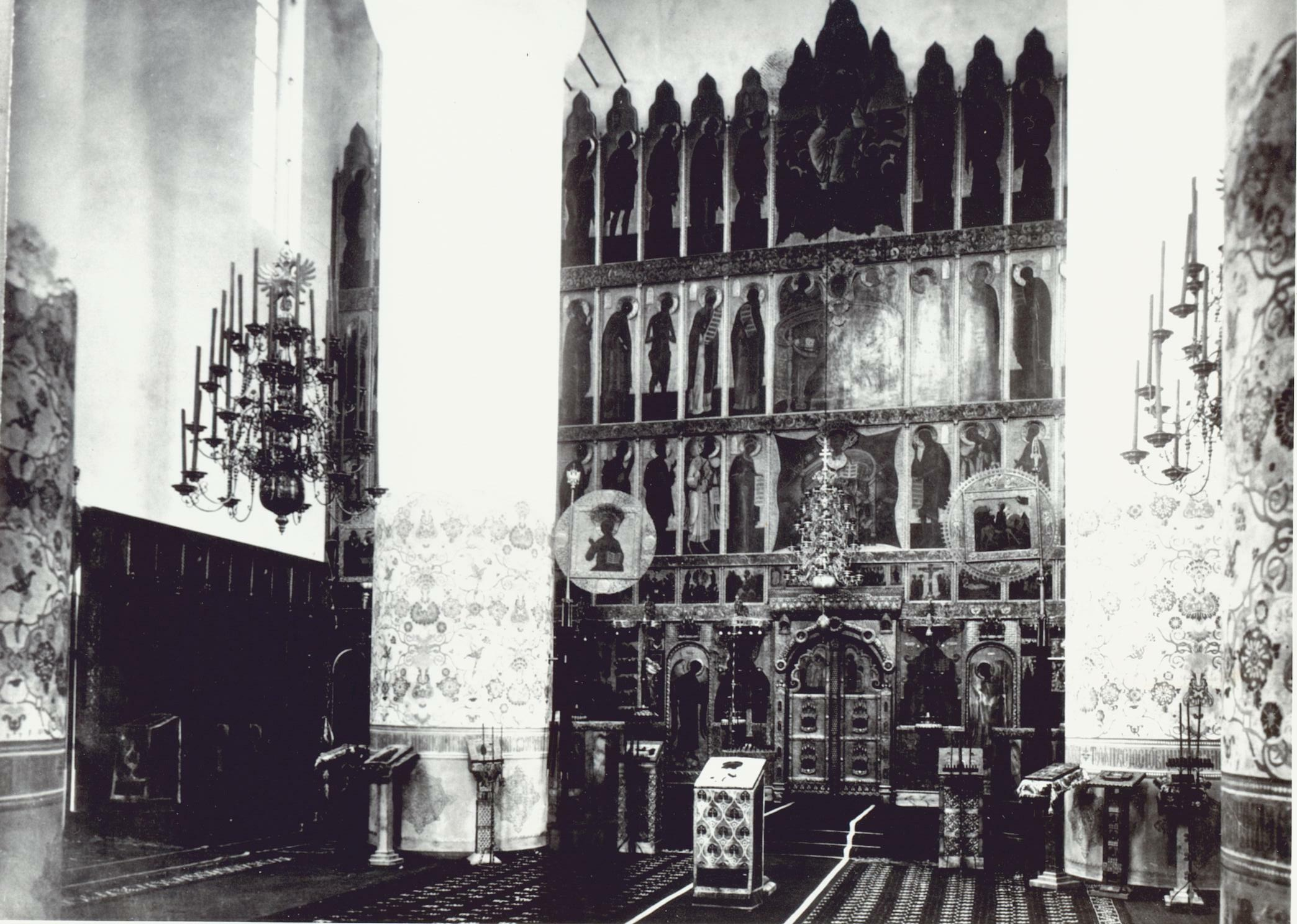 Tsarskoye Selo (Russia)